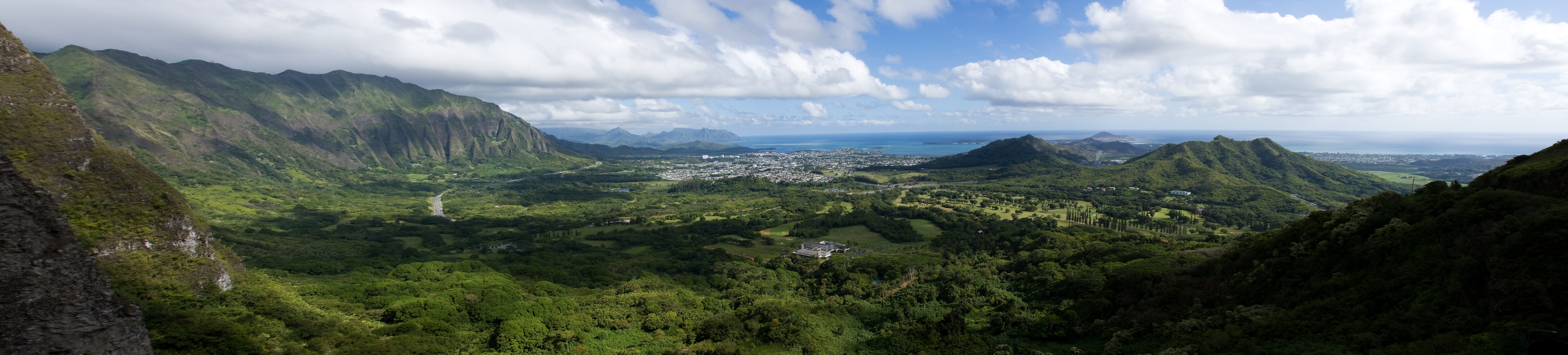 Cliffs of the Koolau Range as seen from the Nuuanu Pali Lookout, Oahu, Hawaii, USA